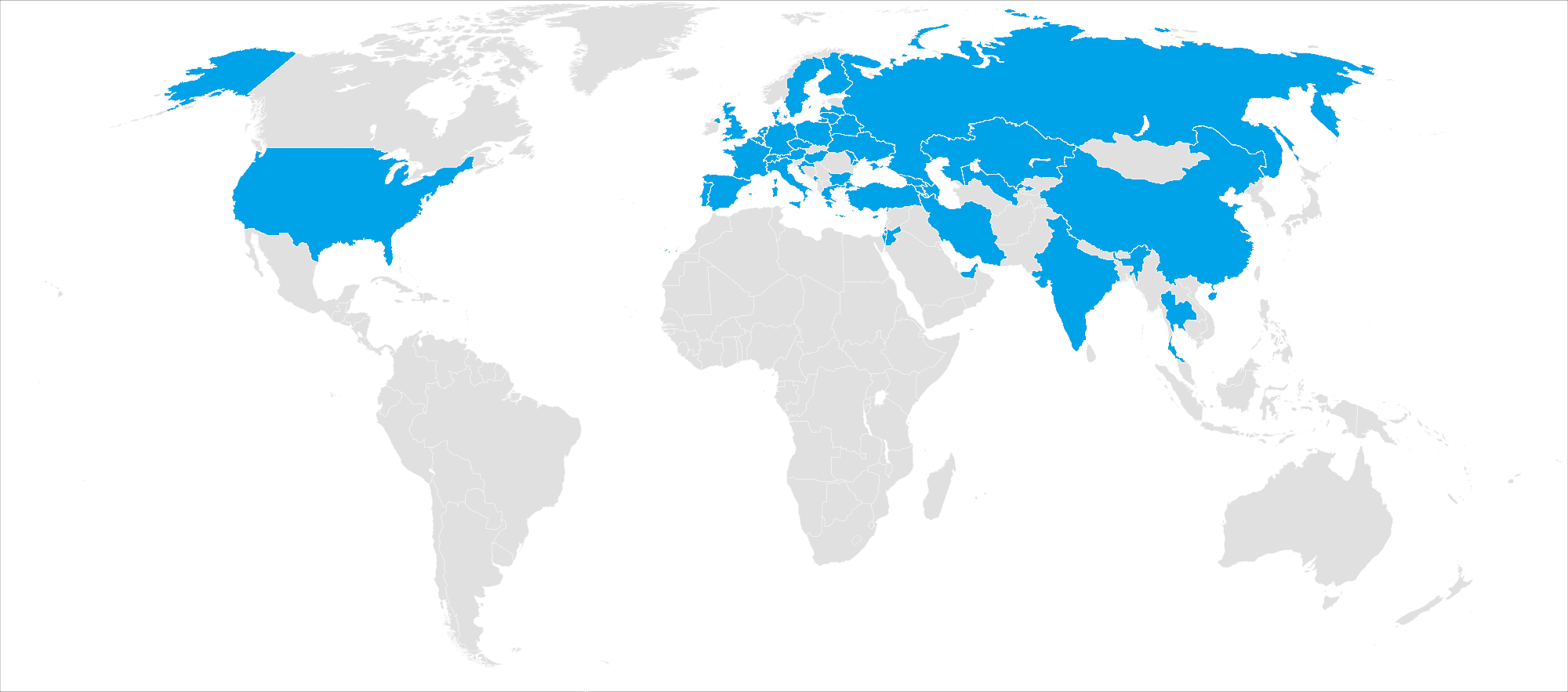 Ukraine International Airlines destination map